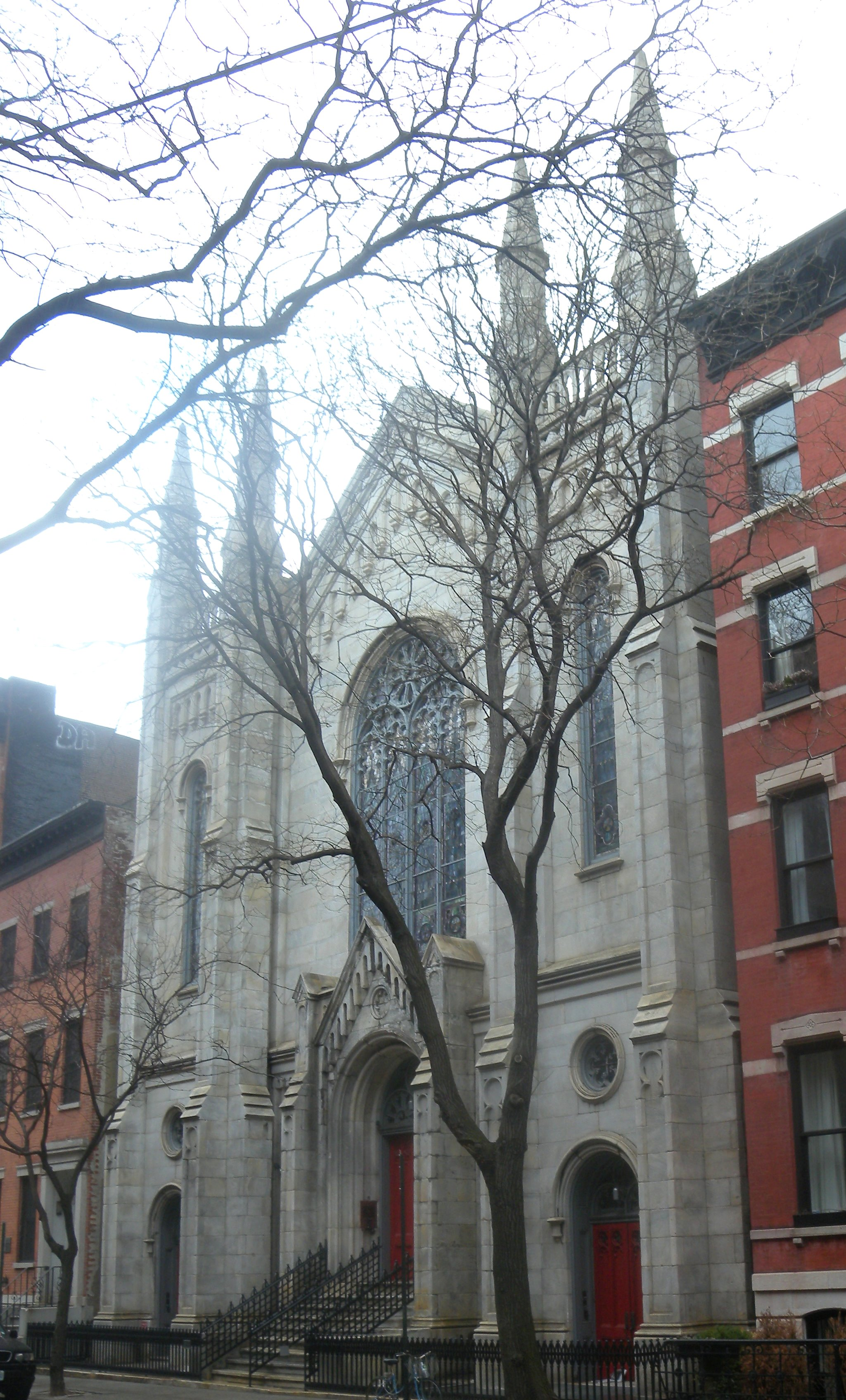 Lookinng north across 4th St at the former Washington Square United Methodist Church on a cloudy morning.